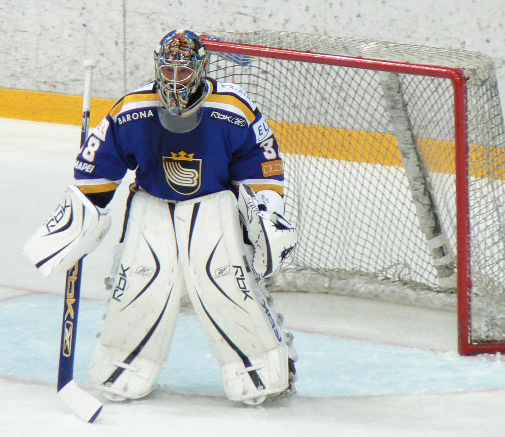 Jere Myllyniemi tending the goal of the Espoo Blues at the 2007 Tampere Cup of ice hockey.